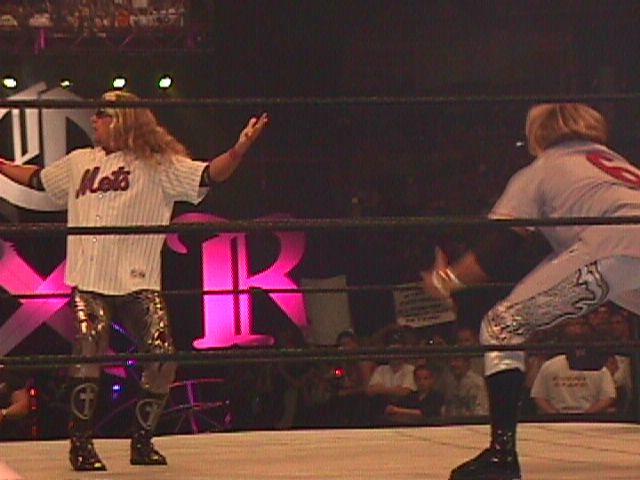 Edge and Christian in the ring, ready to take on "Too Cool". thanks mch, photo taken at the WWF King of the Ring at the Fleet Center in Boston, MA in 2000 - WWE